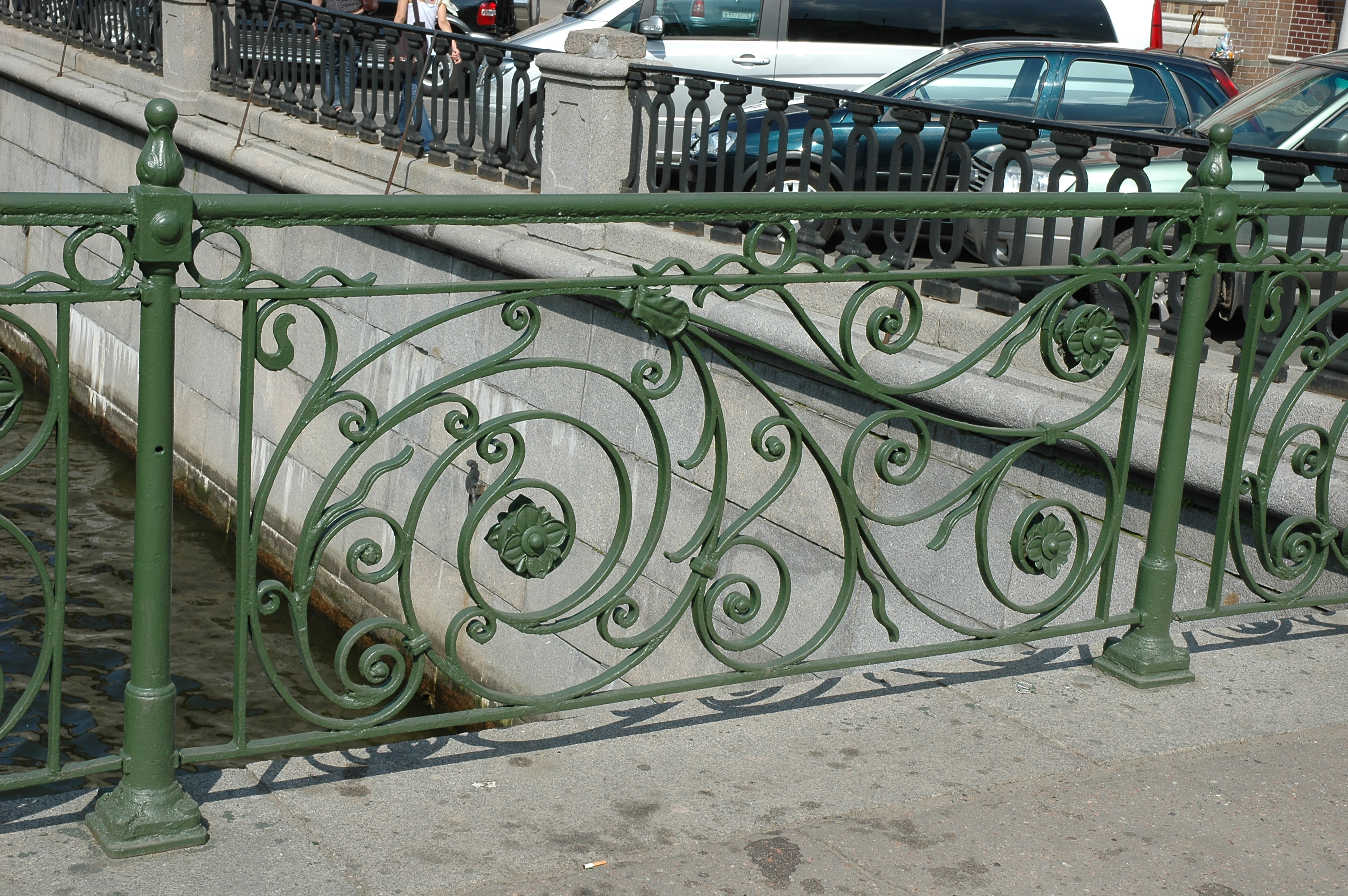 Novo-Koniushennyi bridge across Griboedova canal. St Petersburg. (fence)